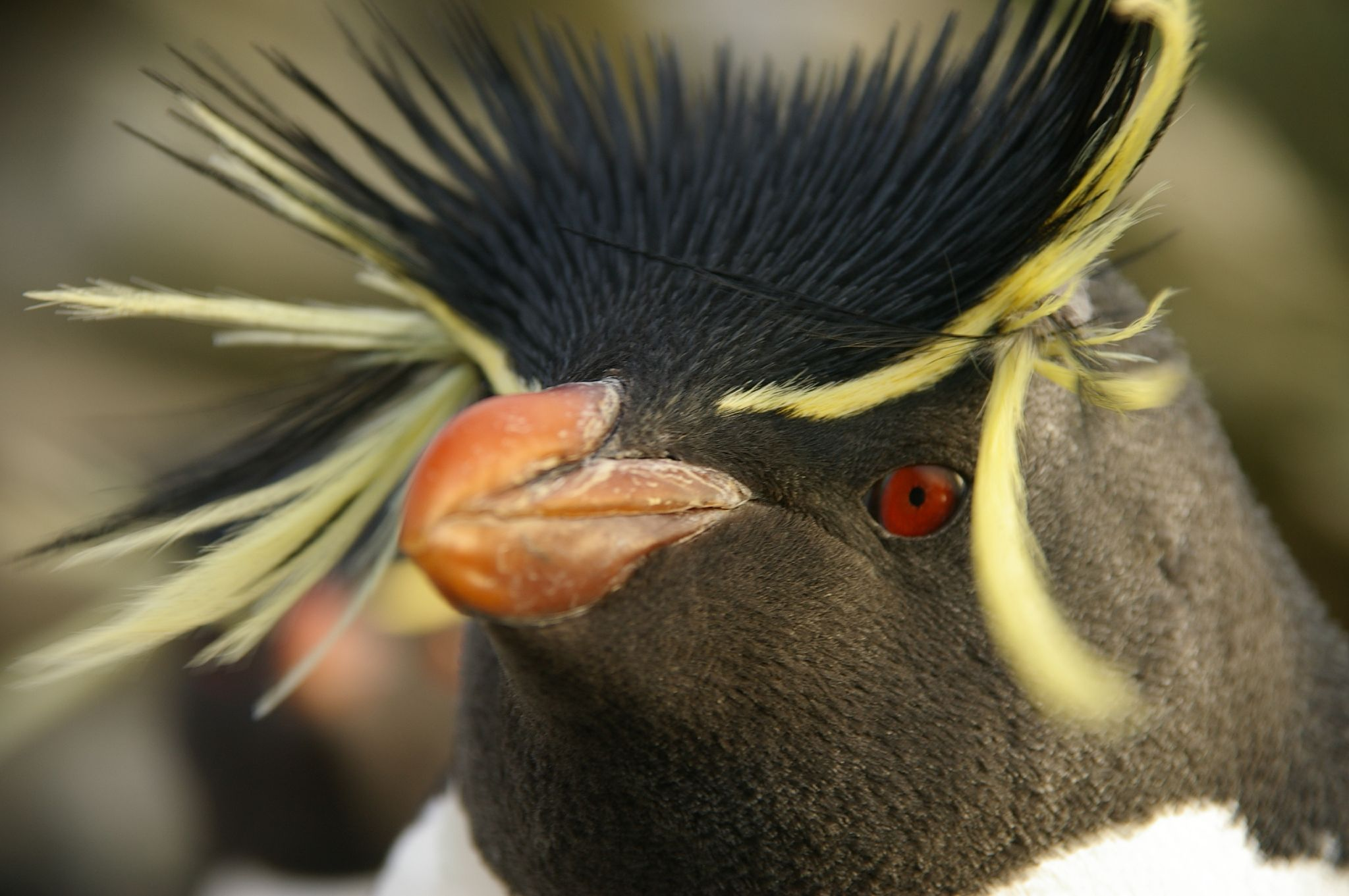 (Southern) Rockhopper Penguin (Eudyptes chrysocome), Saunders Island, Falkland Islands